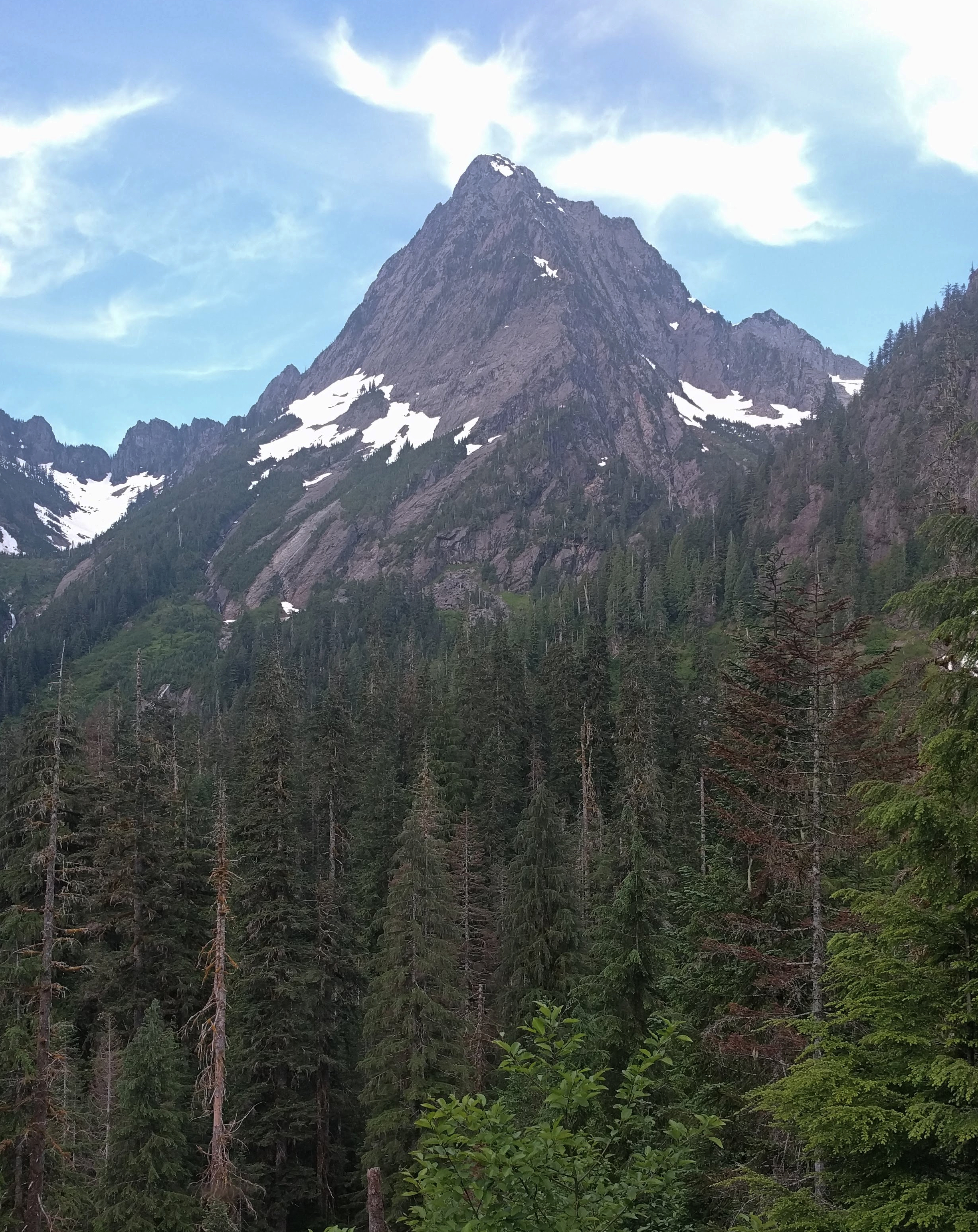 Sperry Peak of Cascade Range in Washington state